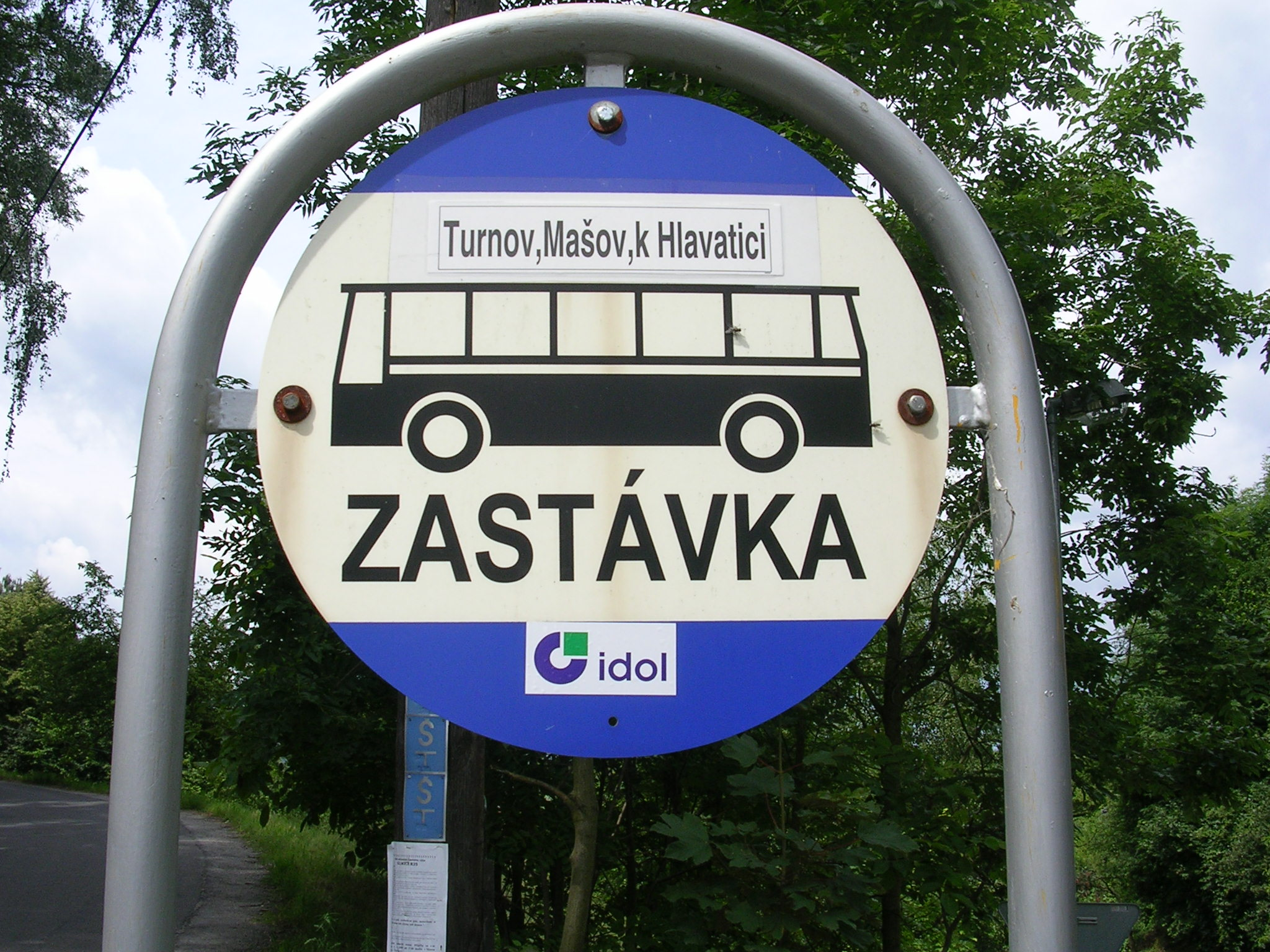 Turnov, Liberec Region, the Czech Republic. A bus stop near Hlavatice Tower.